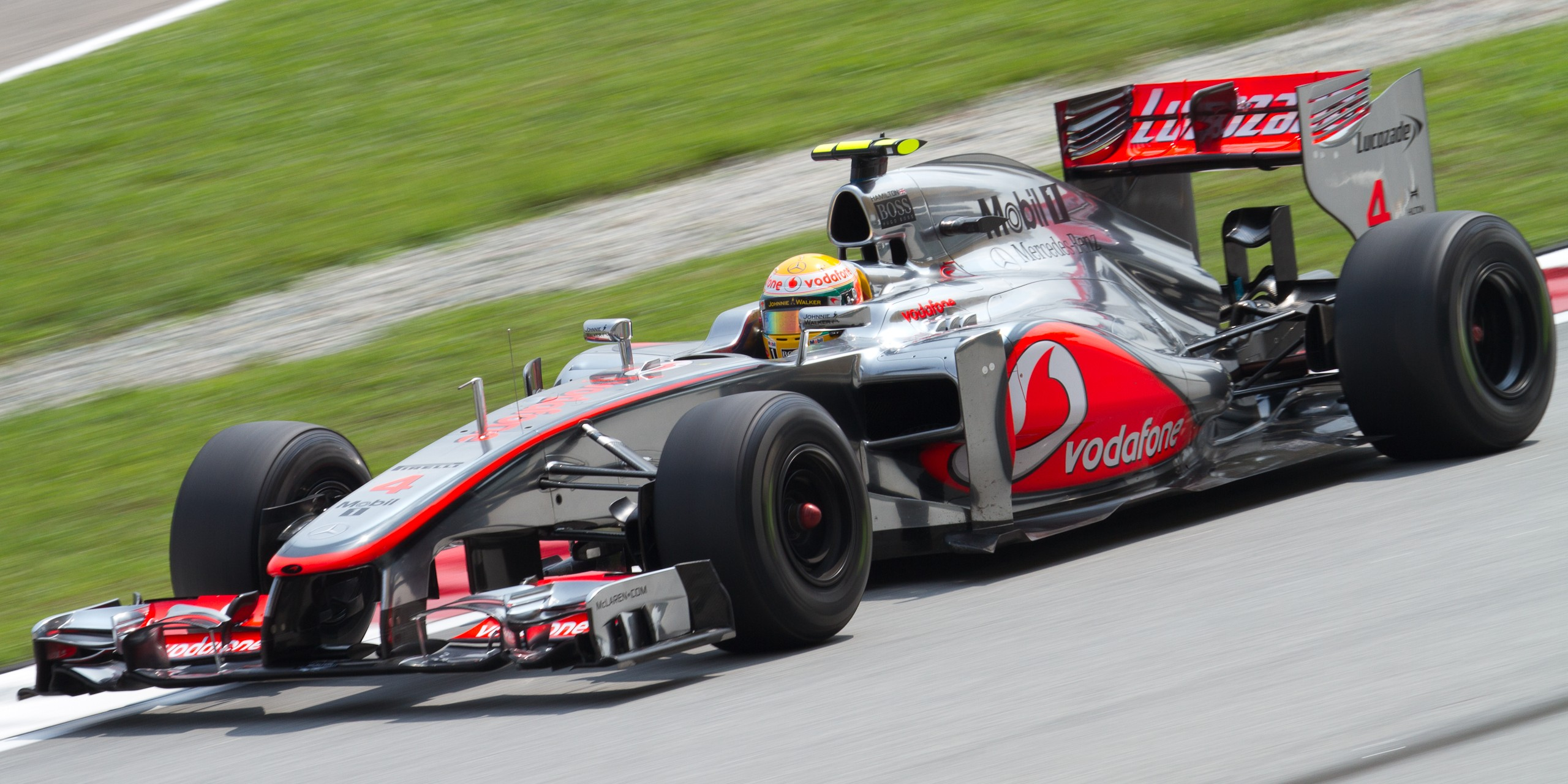 Formula One 2012 Rd.2 Malaysian GP: Lewis Hamilton (McLaren) during the first practice session on Friday.